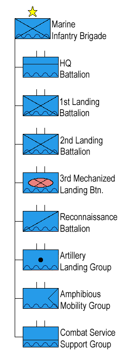 Spain Marine Infantry Brigade